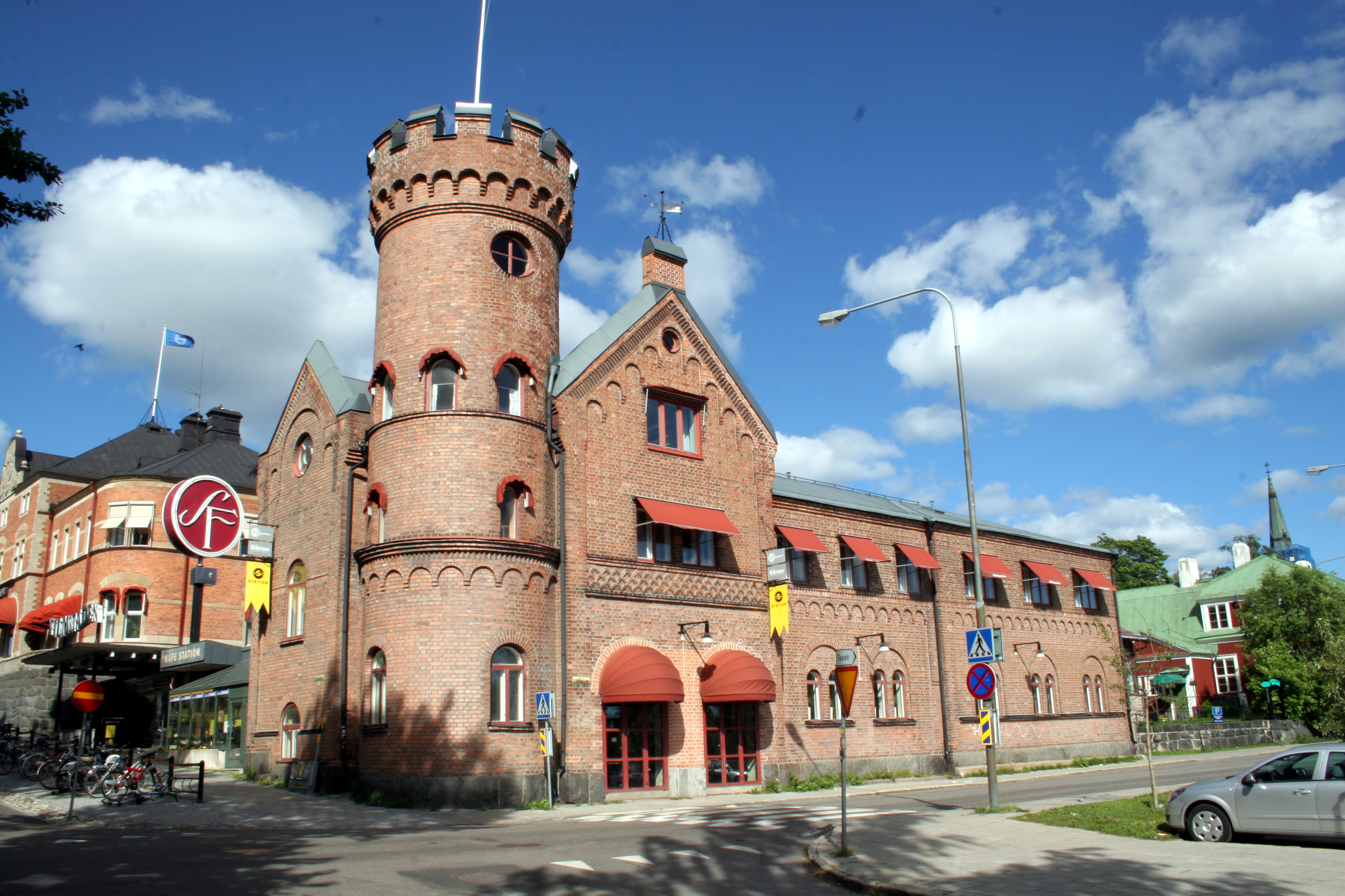 Umeå's oldest firestation. Built round 1888.